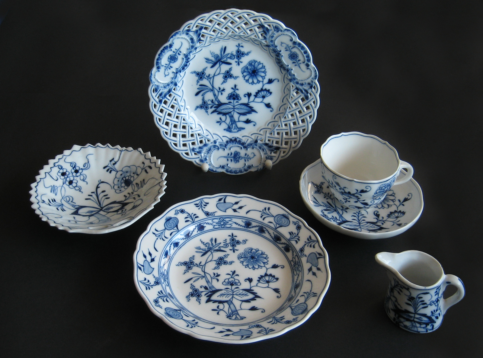 Some pieces of tableware from around 1900 with blue onion pattern